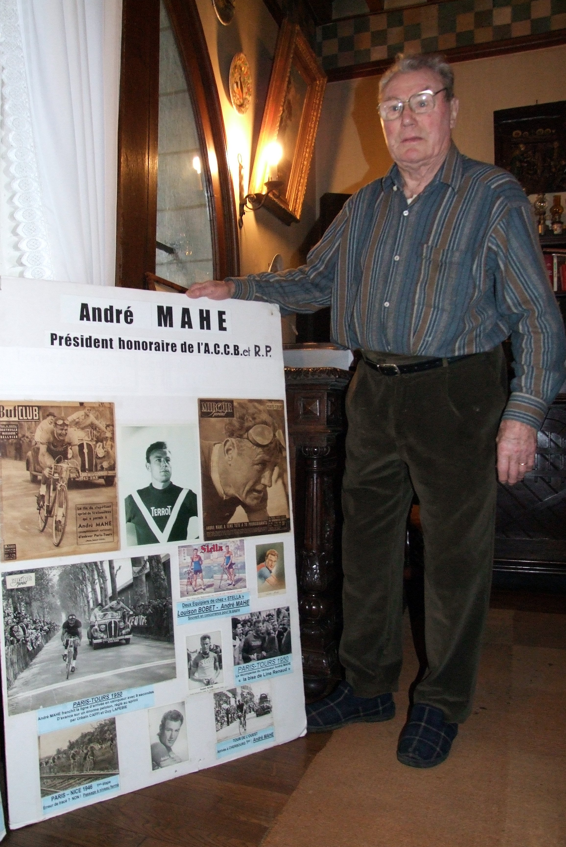 My own picture, taken at Mahé's house